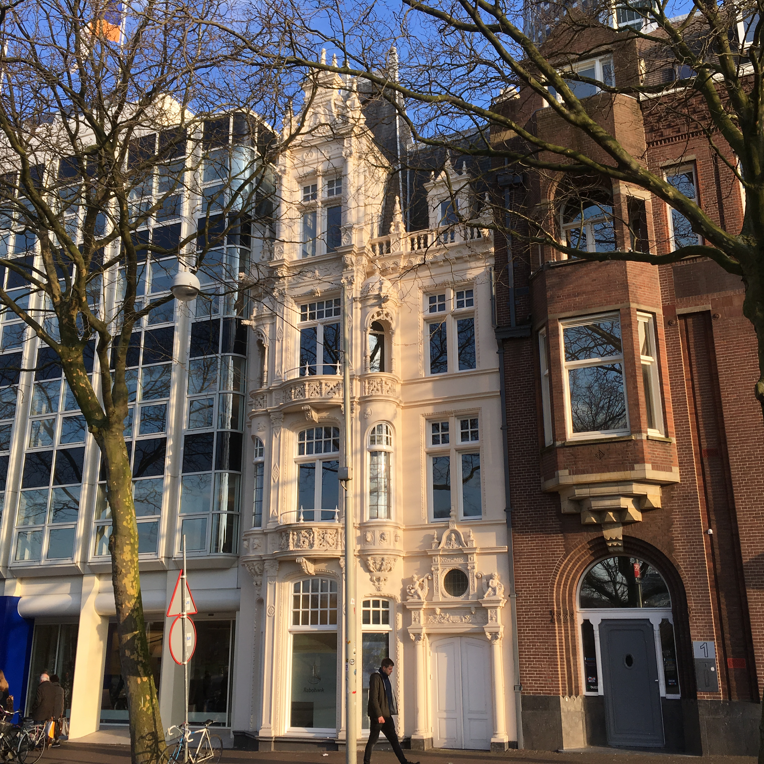 Bezuidenhoutseweg 3, The Hague